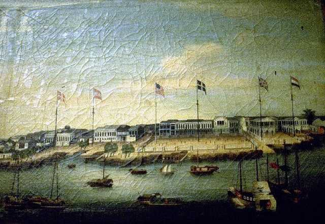 The Thirteen Factories at Guangzhou c. 1780.